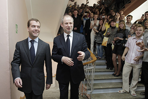 KHABAROVSK. Visiting Pacific National University. With Rector of the University Sergei Ivanchenko.